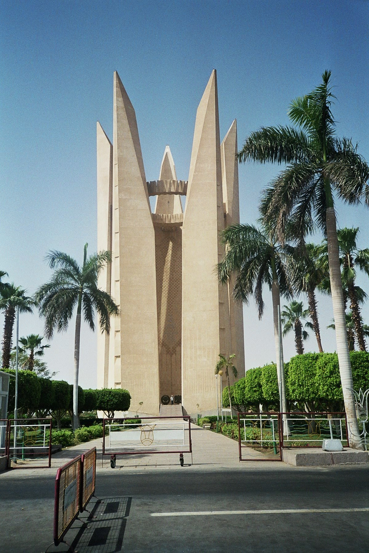 High Dam Monument, Aswan, Egypte